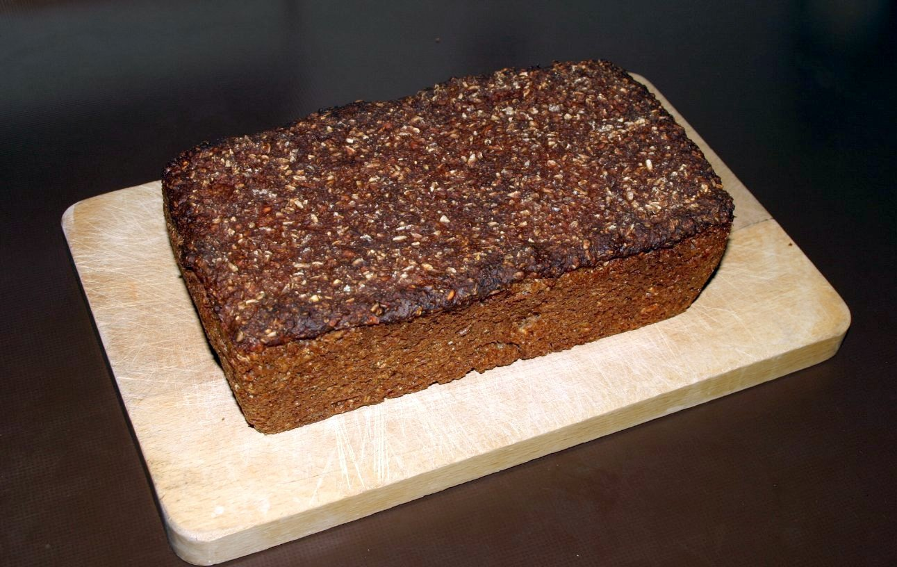 Homemade ryebread. Denmark 2005. Photo: Sten Porse